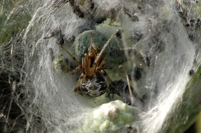 female Phylloneta sisyphia with egg sac, from Commanster, Belgian High Ardennes .